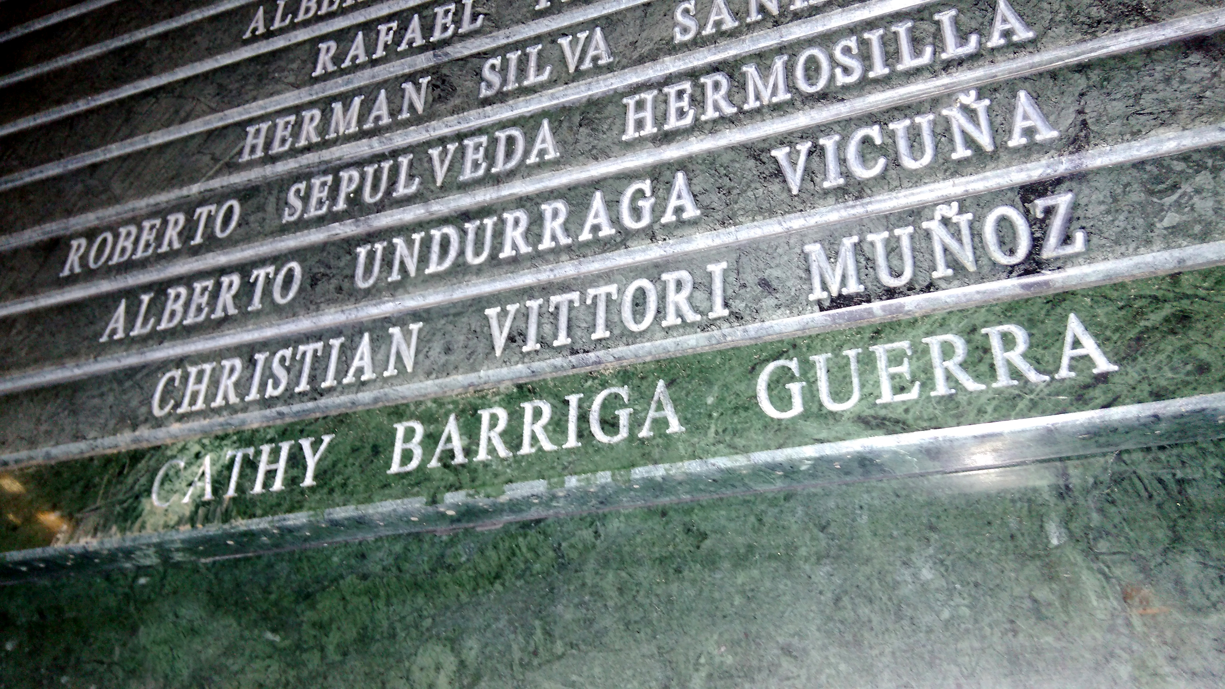 Detalle del Monumento a las Autoridades Alcaldicias de Maipú. Cathy Barriga Guerra (periodo 2016-2020) es la primera alcaldesa en la historia de esa comuna.